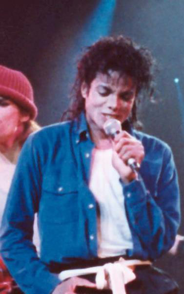 Michael Jackson performing The Way You Make Me Feel in 1988